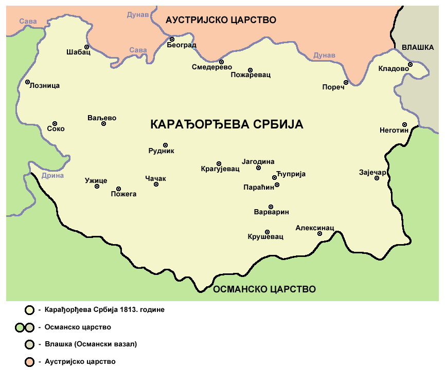 Karađorđe's Serbia in 1813.